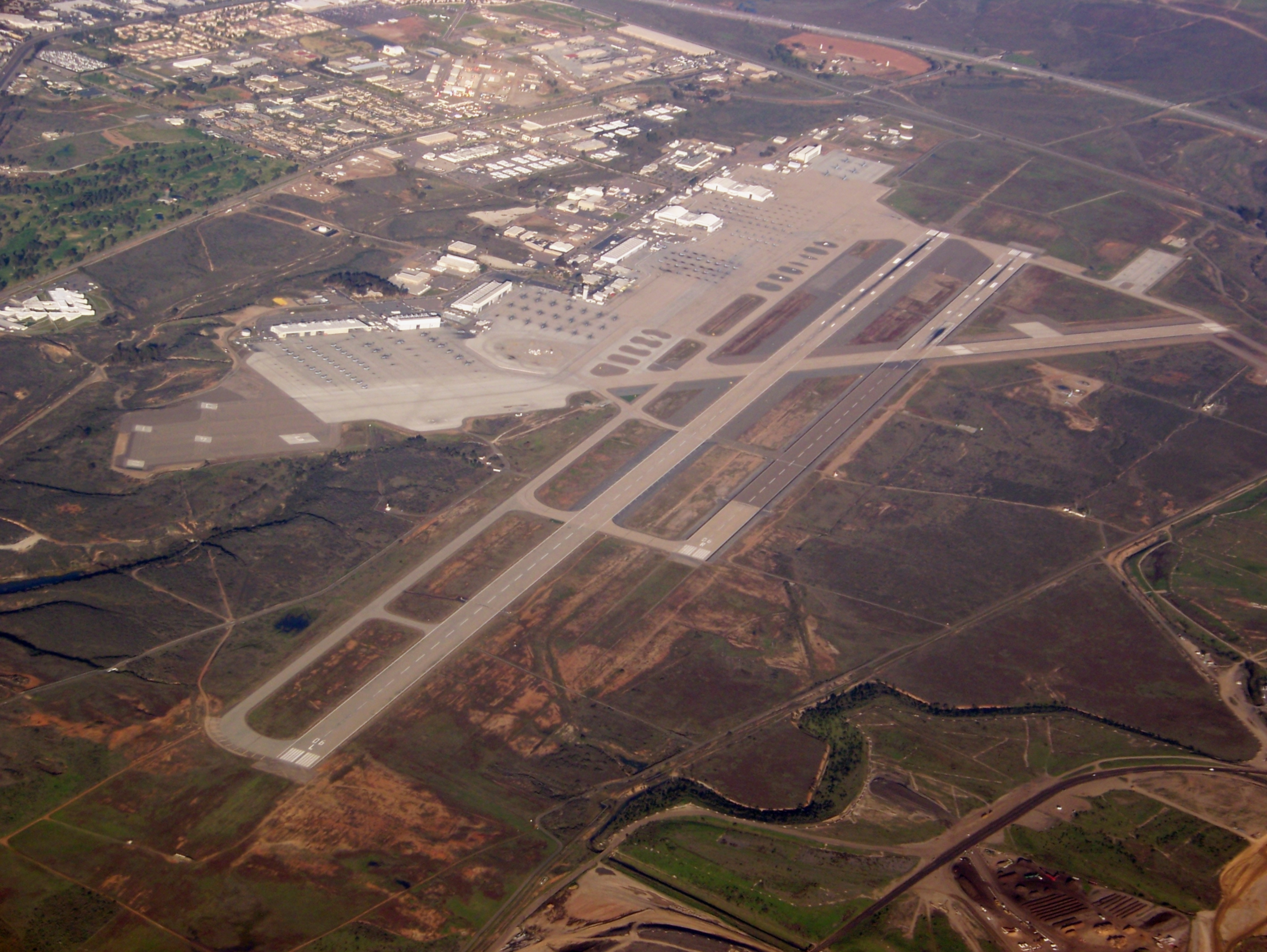 The Marine Corps Air Station Miramar flight line from above in a commercial jet.